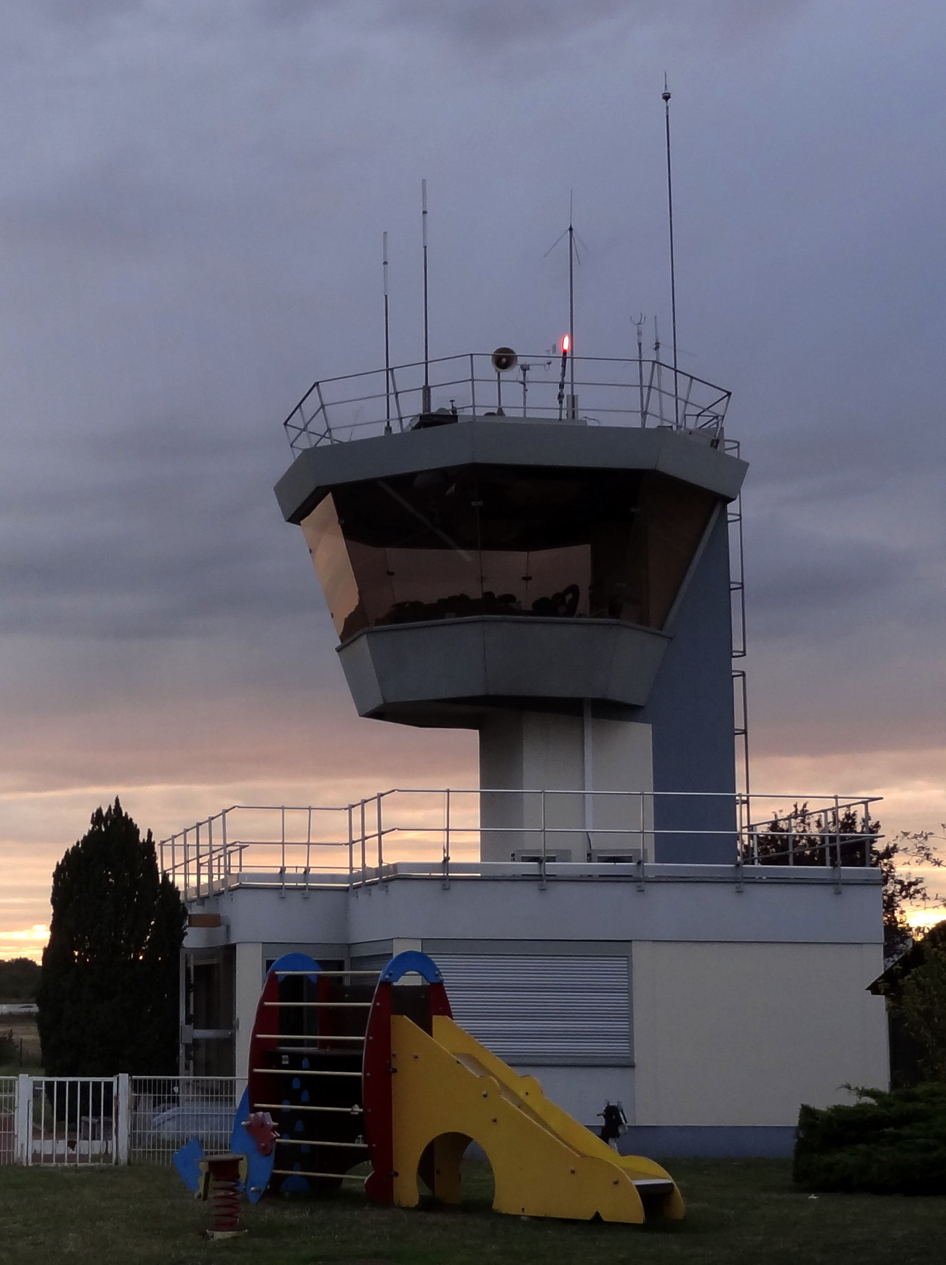 The air traffic control tower of the Lognes-Emerainville airfield (XLG LFPL), at evening twilight.